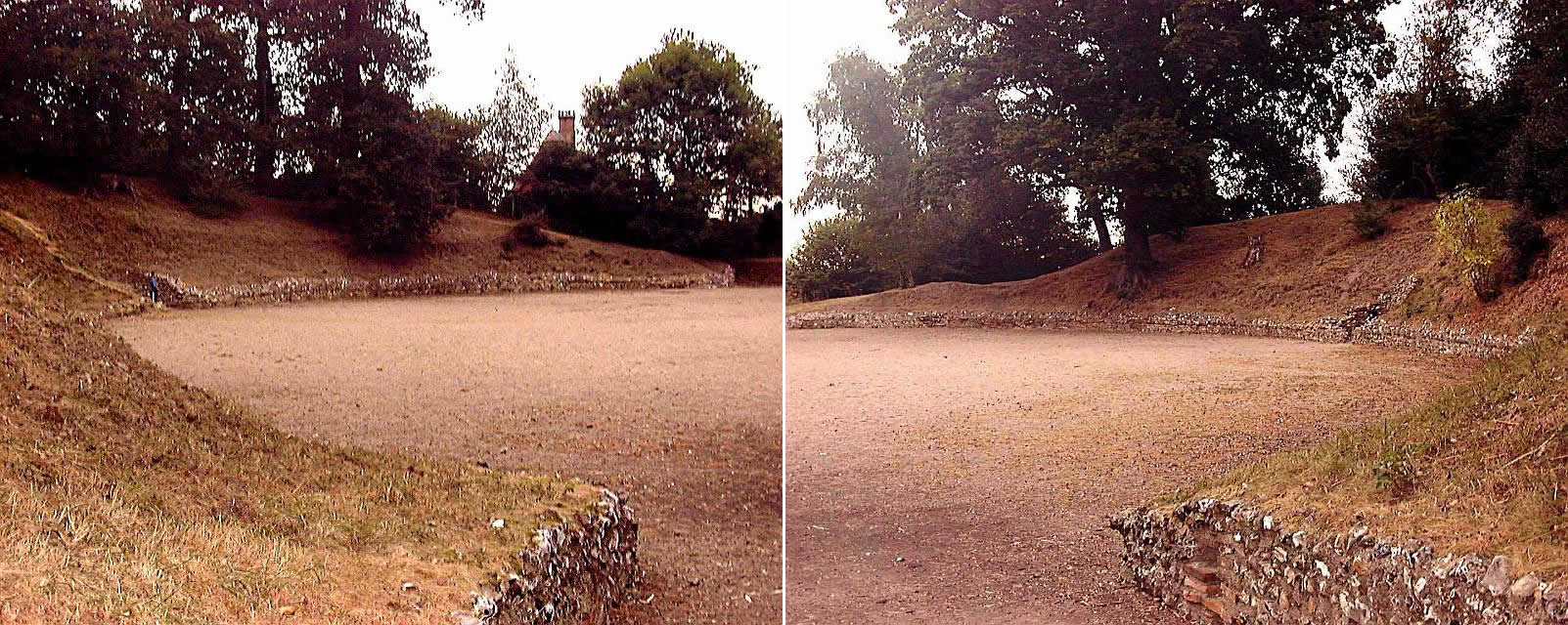 Silchester Amphitheatre